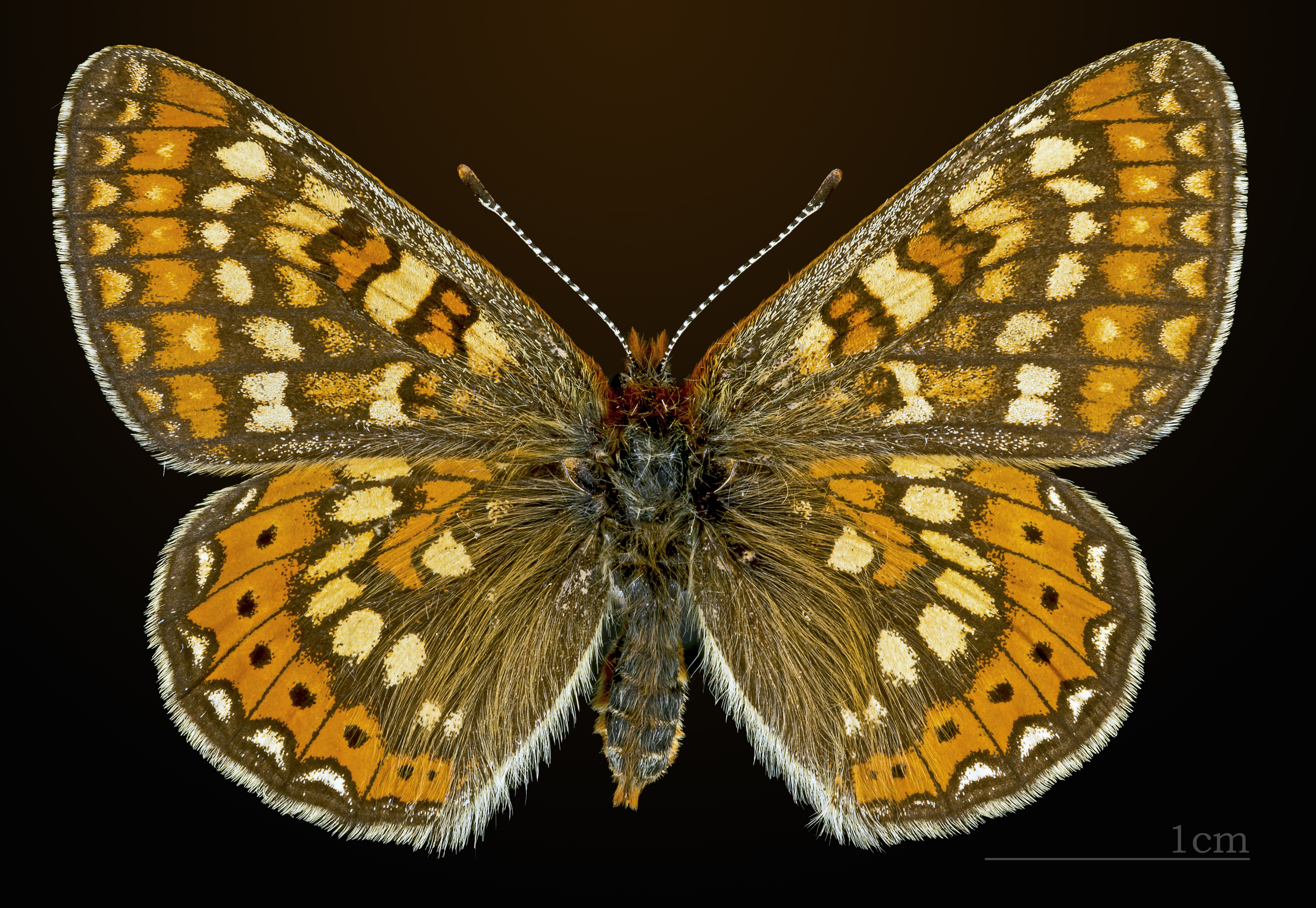 Marsh fritillary - Dorsal side Locality: Clermont-le-Fort, Haute-Garonne, France